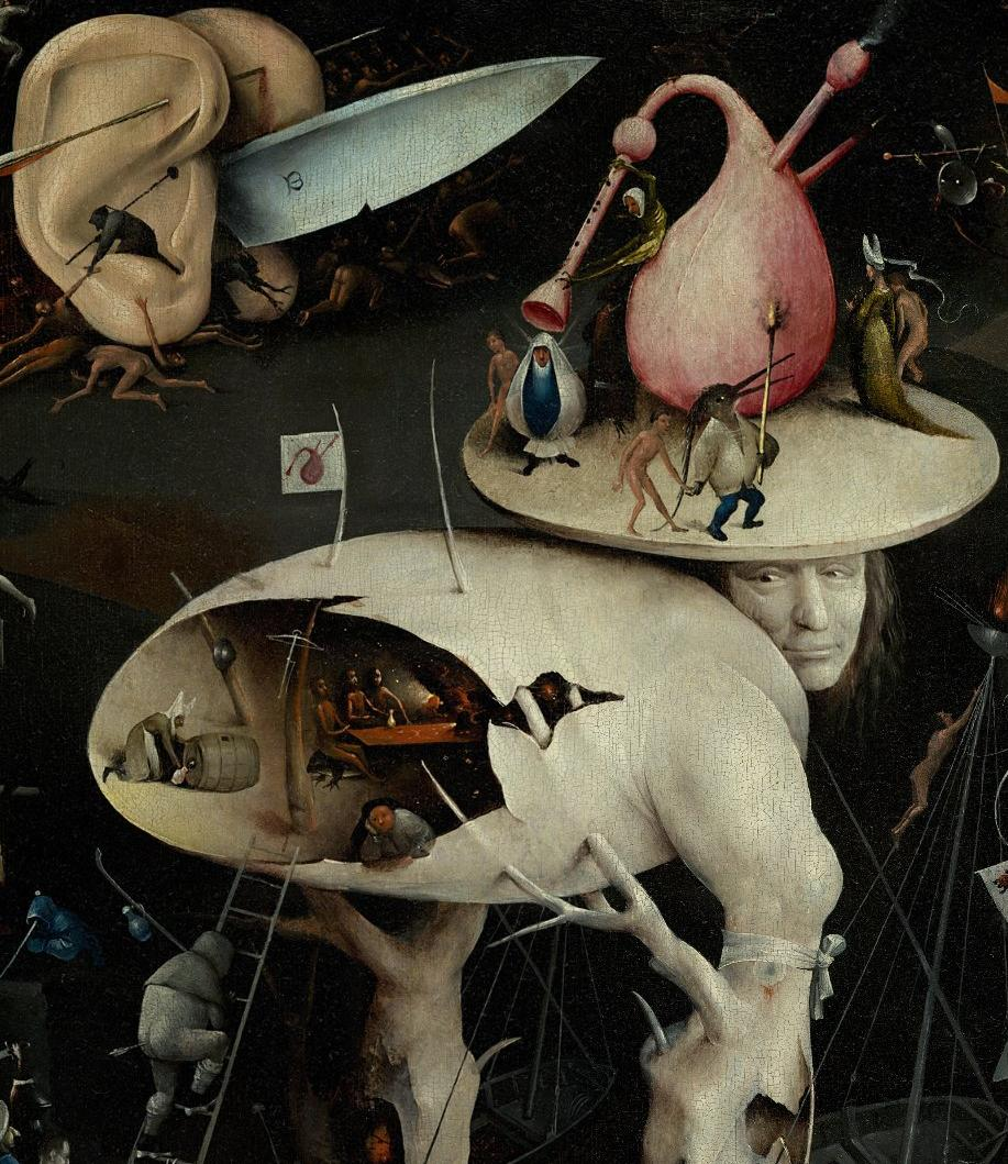 The Garden of Earthly Delights, inner right wing, detail.